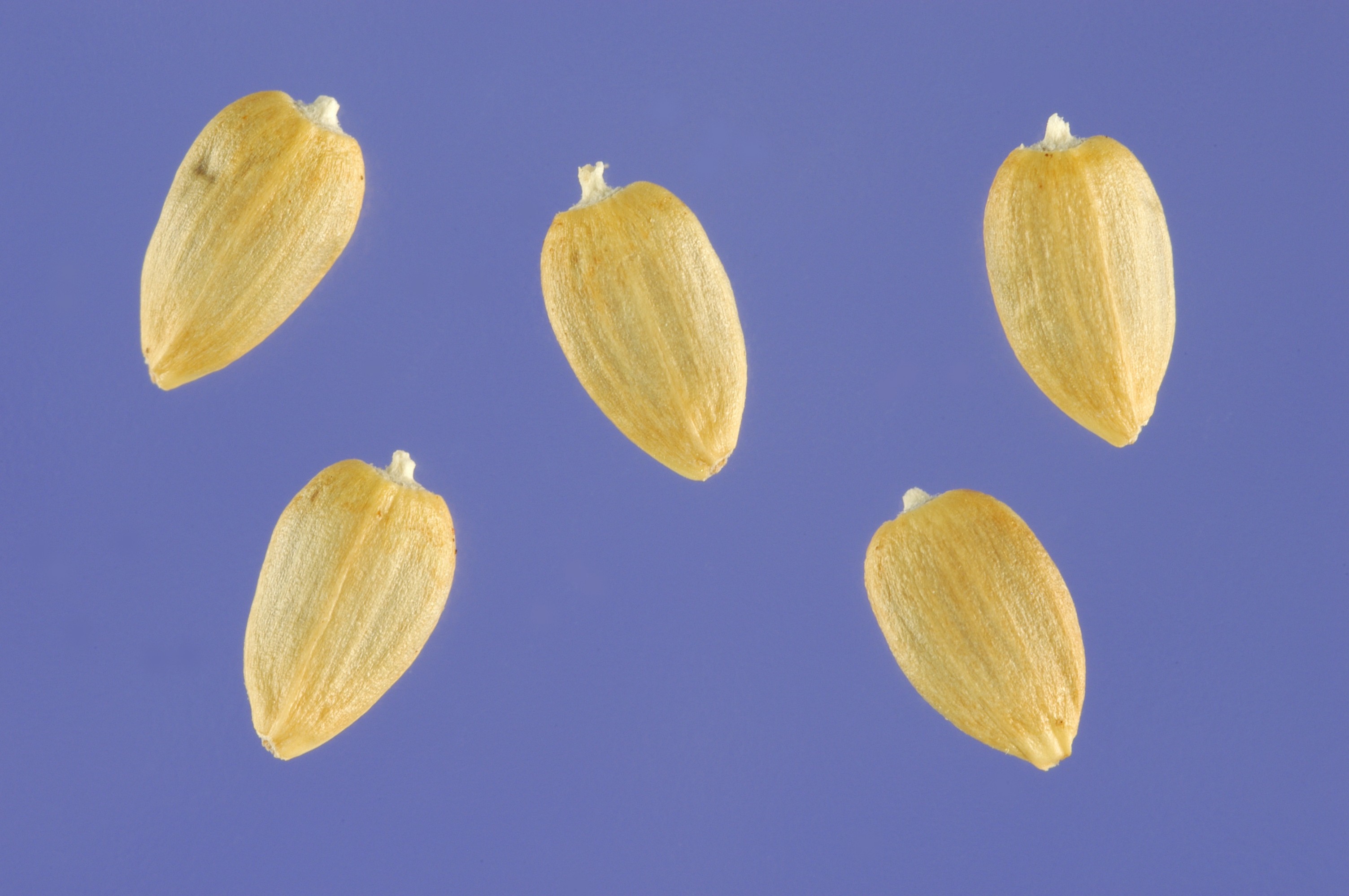 Hardheads. Seeds from Iran.